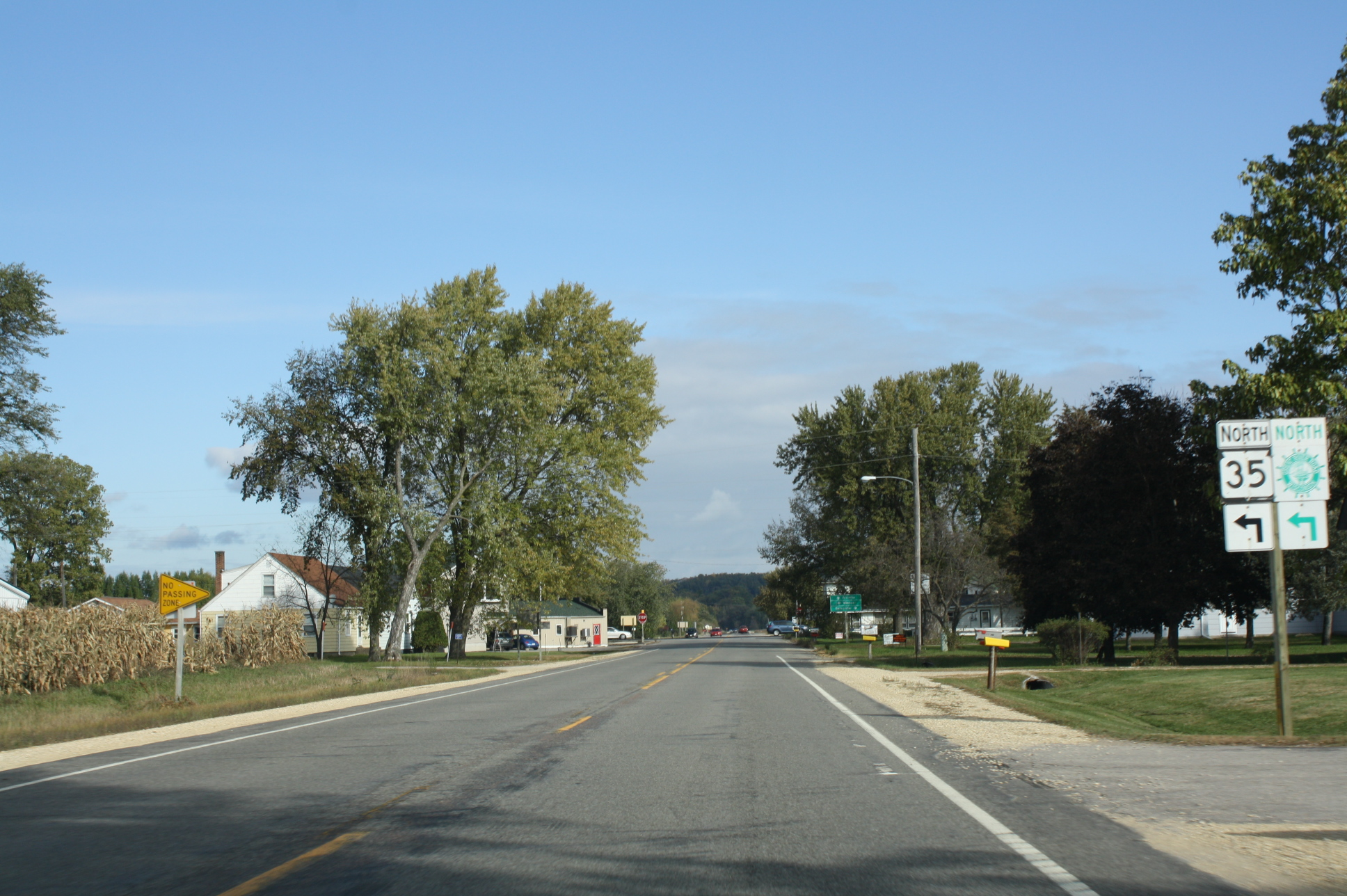 Looking north at the community Centerville, Trempealeau County, Wisconsin along Wisconsin Highway 35 and the Great River Road.